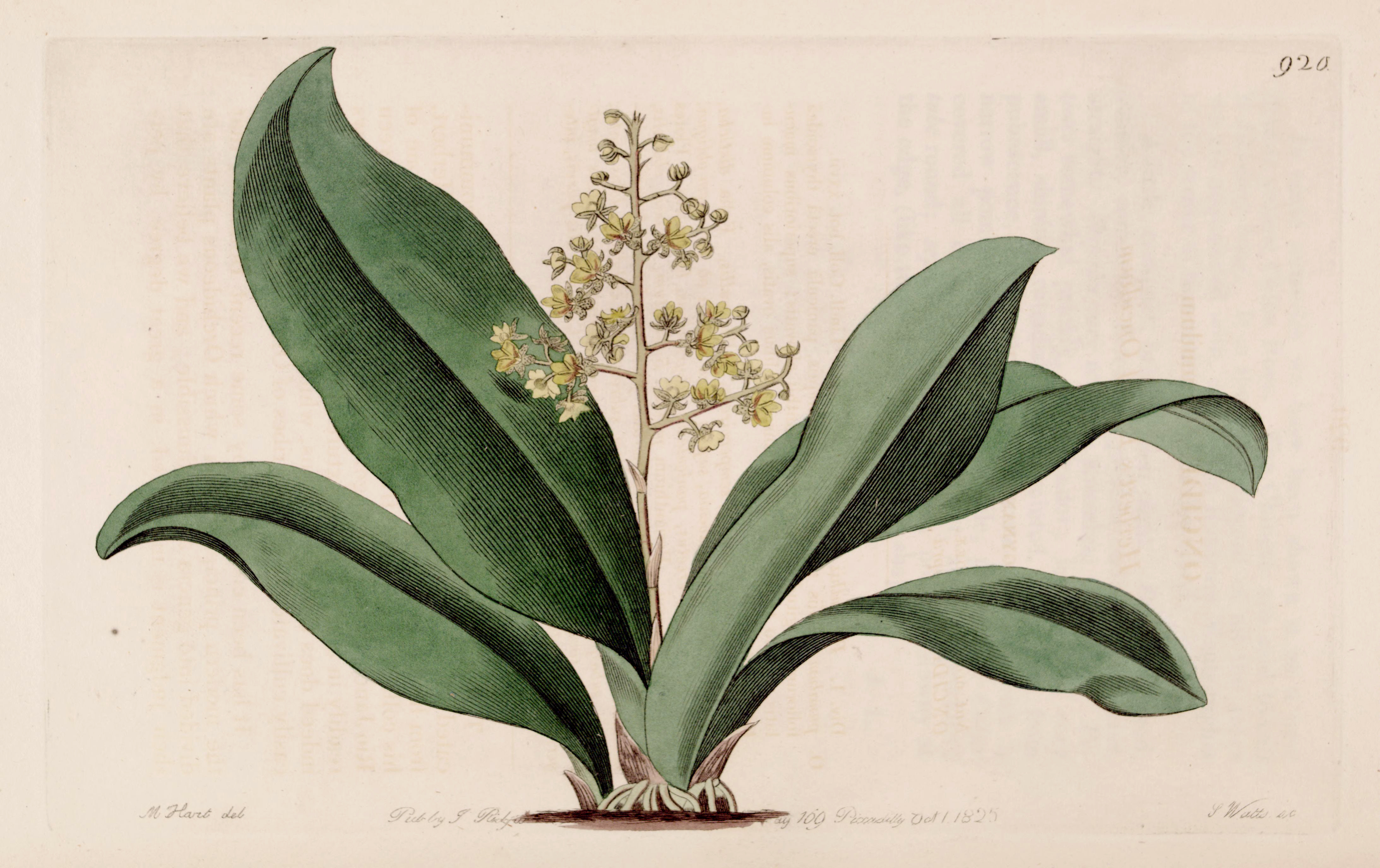 Illustration of Trichocentrum pumilum (as syn. Oncidium pumilum)